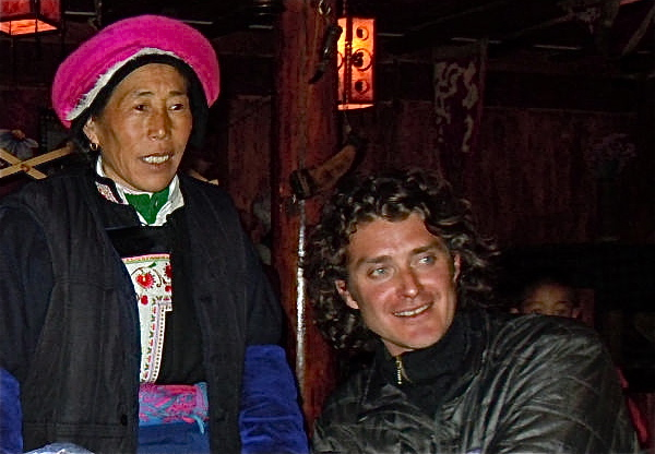 Jeff Fuchs in Zhongdian, Yunnan, where he lives for most of every year with a local Tibetan friend